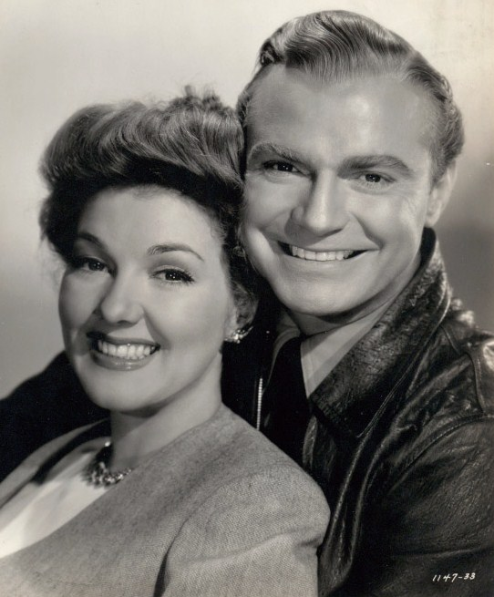 Jean Parker and Donald Barry (aka Don "Red" Barry) in The Traitor Within (1942) (aka The Crooked Circle) - publicity still (cropped : see source)